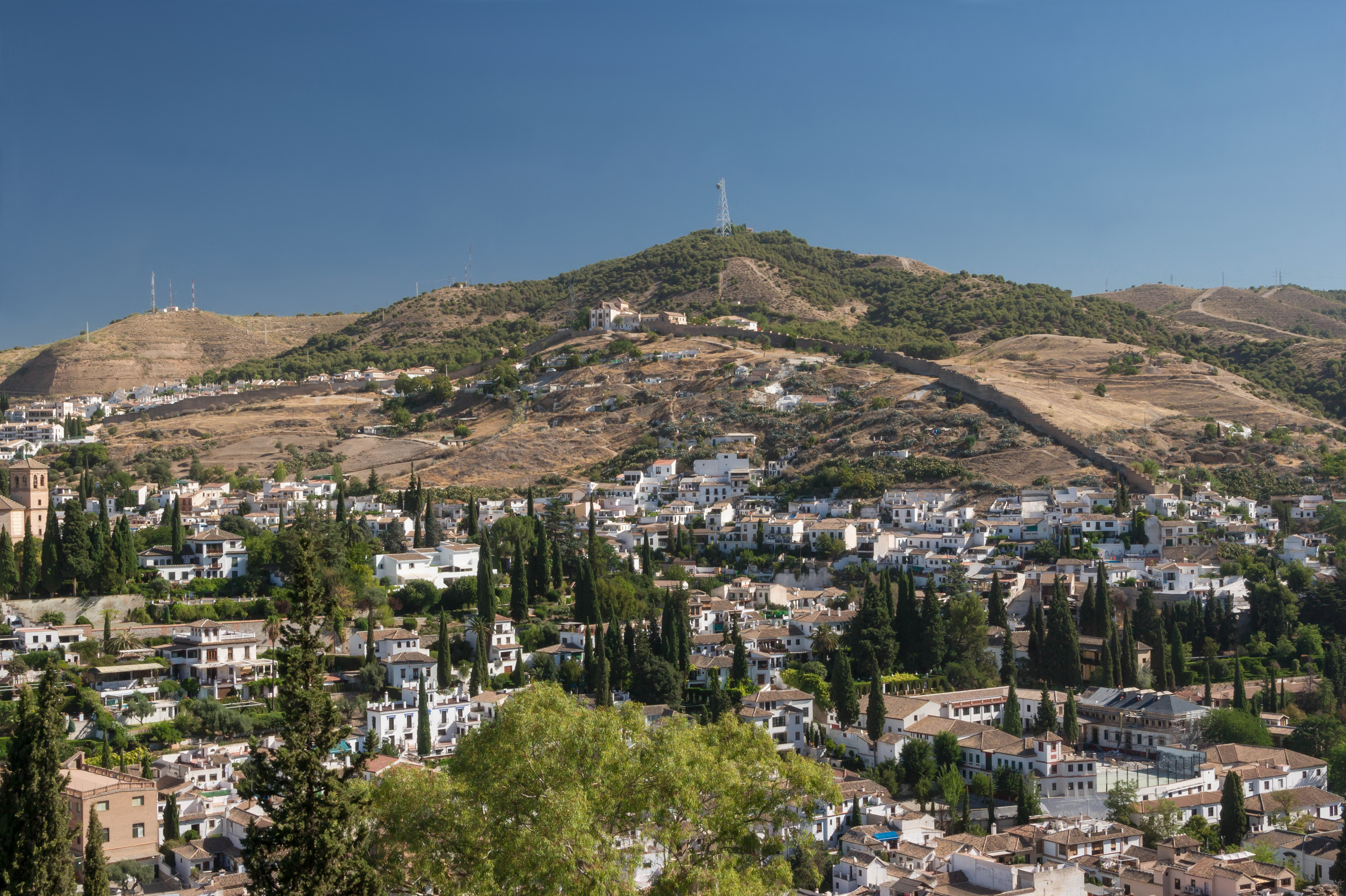 "Sacromonte" and arab nasrid city walls, seen from Alhambra. Notice the troglodyte inhabitations in the hill. Granada, Spain.